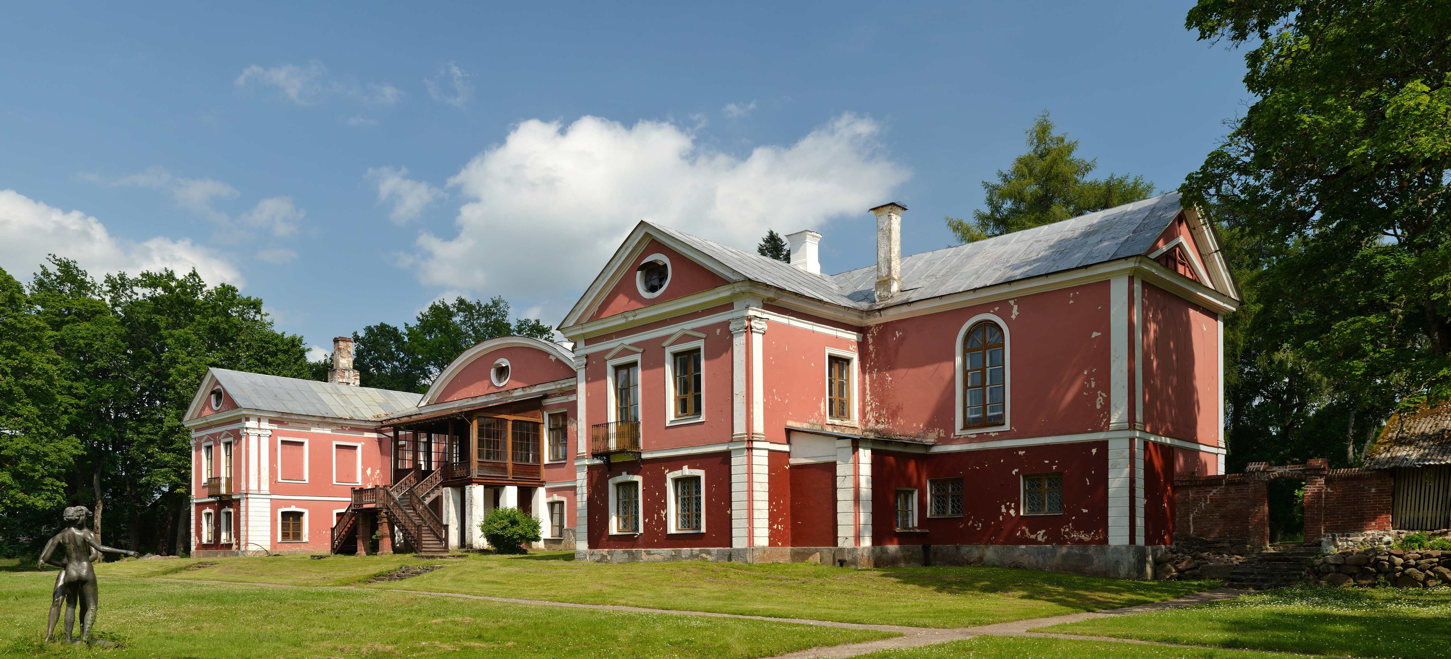 Õisu manor main building